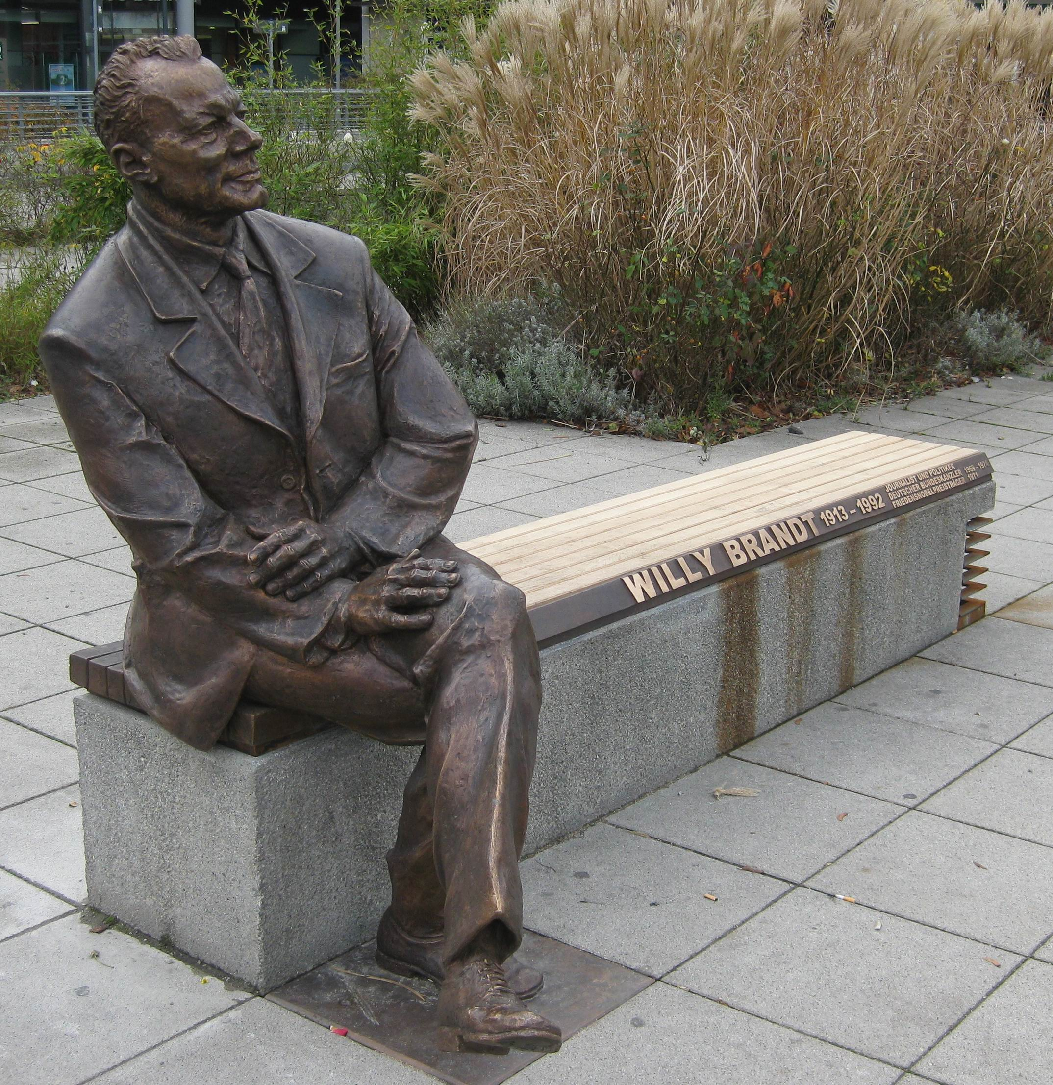 Willy Brandt Memorial in Nuremberg, Willy Brandt Platz, Sculptor Josef Tabachnyk